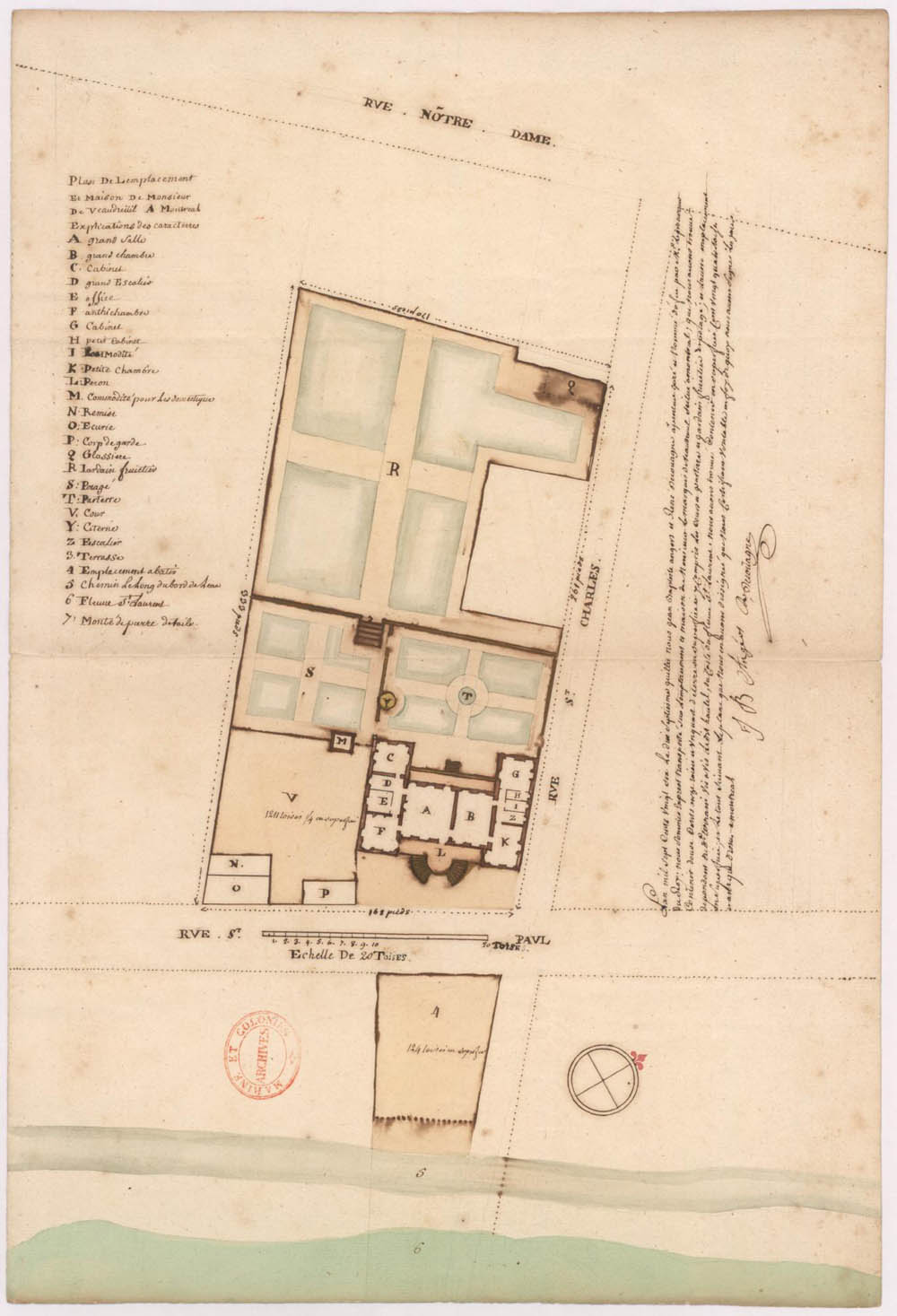 Plan of the residence of Philippe de Rigaud, Marquis de Vaudreuil, Governor General of New France, located in Montréal